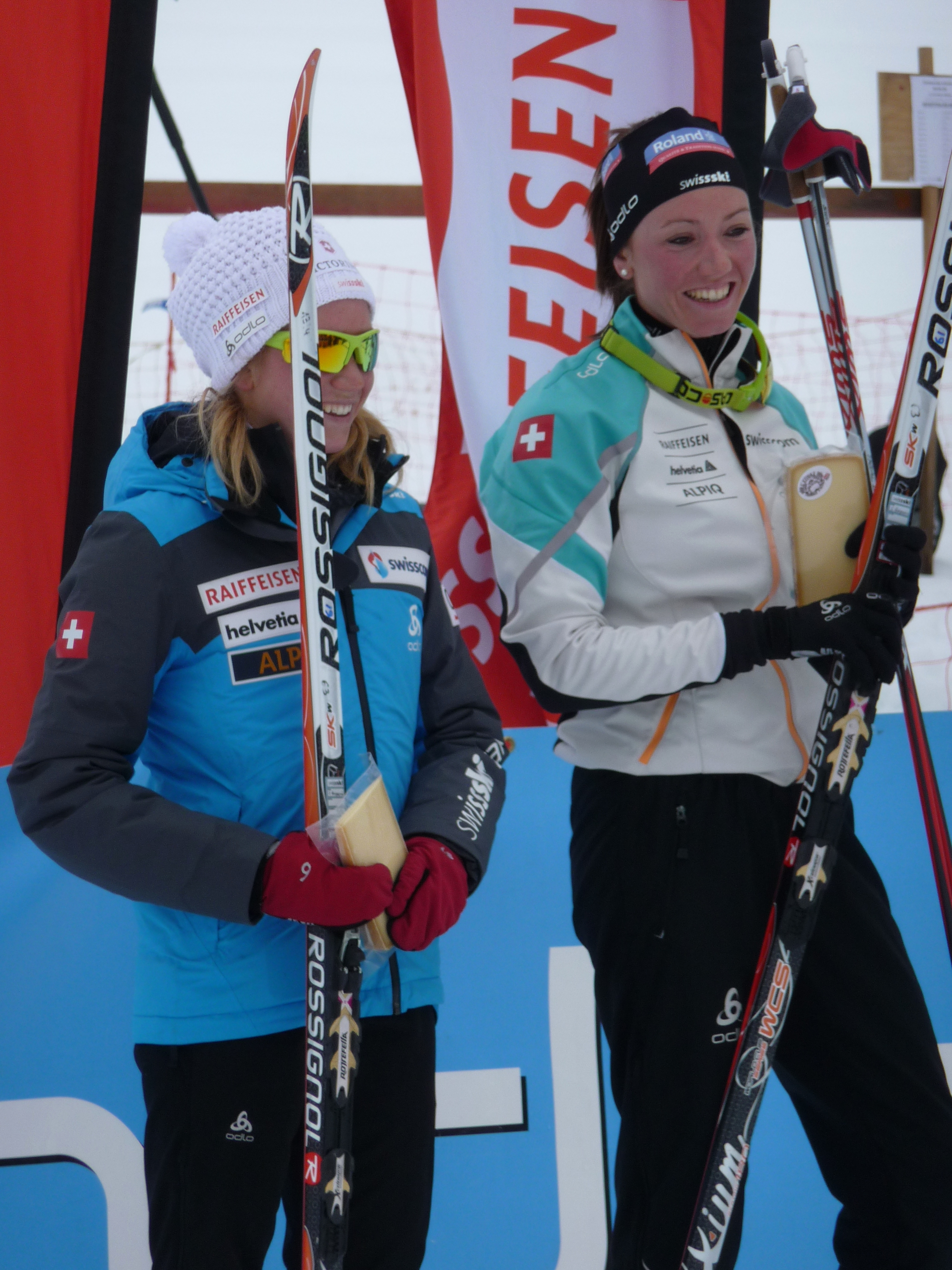 Swiss biathletes Elisa and Selina Gasparin at National Championships in Biathlon 2013 (Podium Sprint Race) in La Lécherette, Switzerland